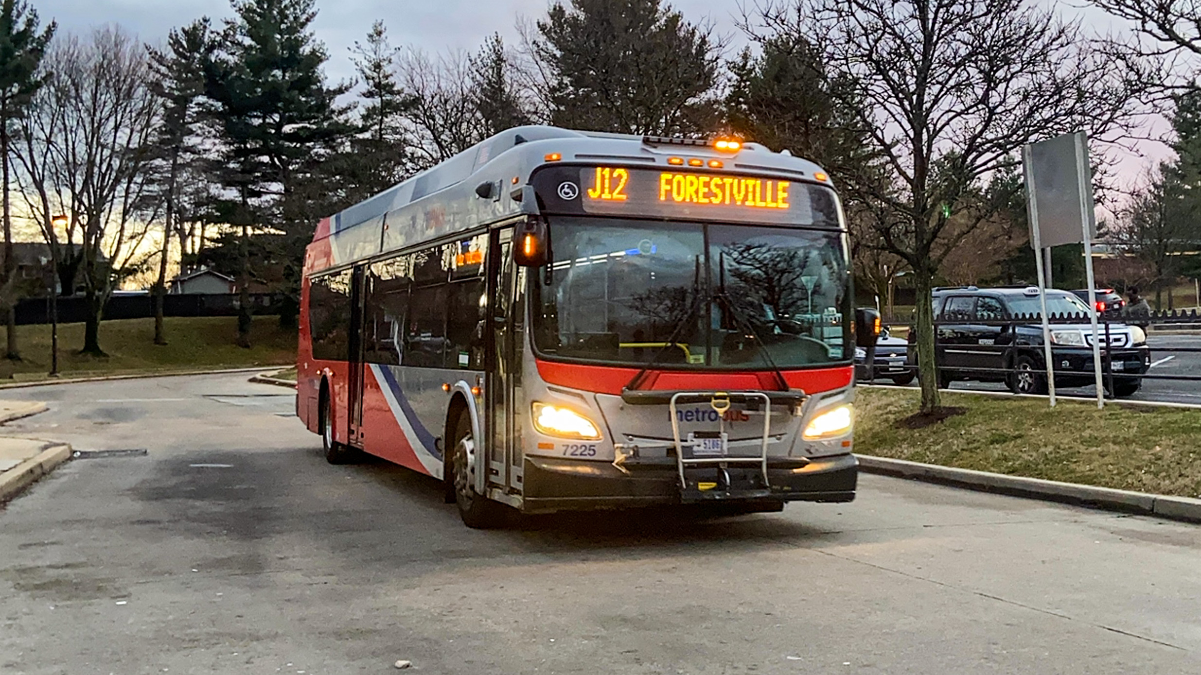 WMATA New Flyer XDE40 7225 on Route J12 At Addison Road